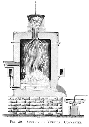 First experimental Bessemer converter. The pig iron plate protects from sparklings.